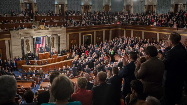 President Donald Trump delivering an address to a joint session of the U.S. Congress on February 28, 2017.